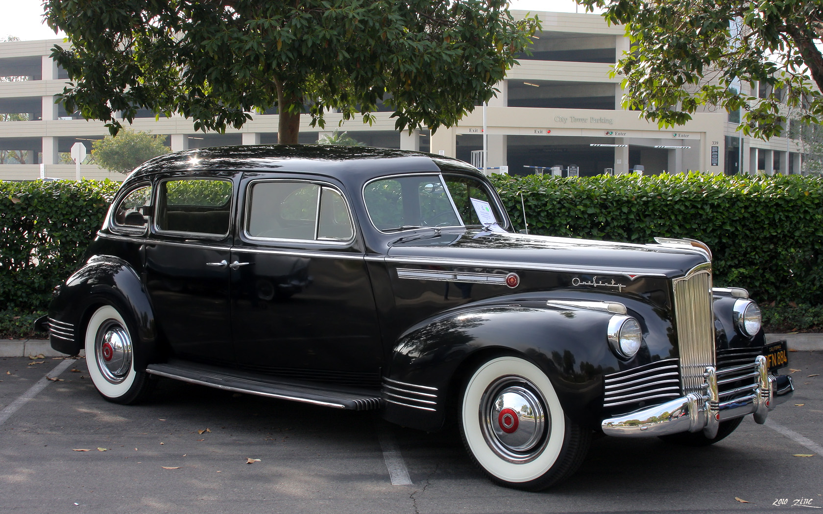 1942 (20th series) Packard Super Eight One-Sixty; Packard Club at the Double Tree Hotel, Orange, CA, Jan 29, 2010